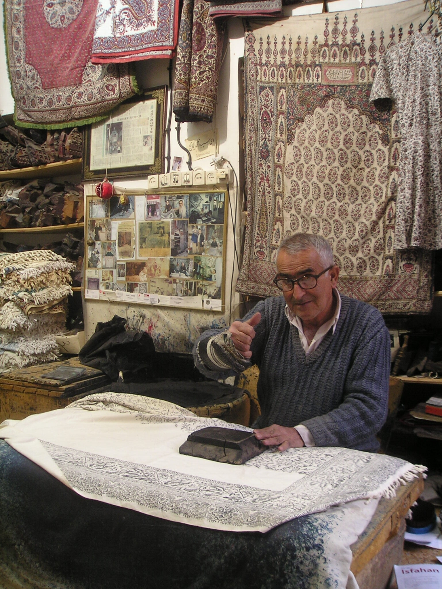 Market of Esfahan, Iran, 2004. Photo by Bertil Videt